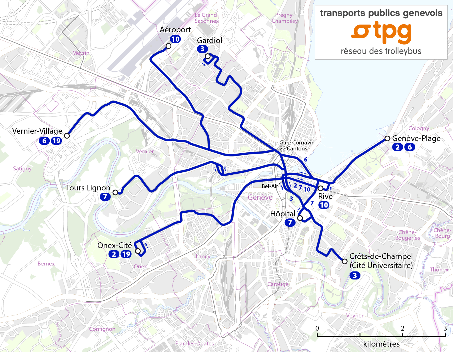 Map of the Geneva trolley network